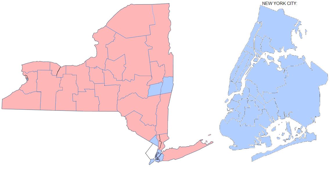 Partisan composition of the Senate of the 148th New York State Legislature, in office from January 1 to December 31, 1925. Red represents Republican senators and Blue represents Democratic senators. Boundaries are courtesy of the 1918 The World almanac pp. 831- 834, and parties are courtesy of the English Wikipedia page of the 148th New York State Legislature. Adapted from File:New_York_Counties.svg.